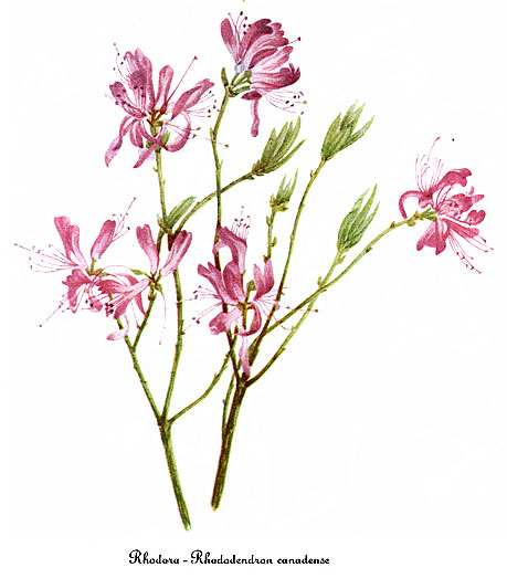 Watercolor painting of Rhododendron_canadense.